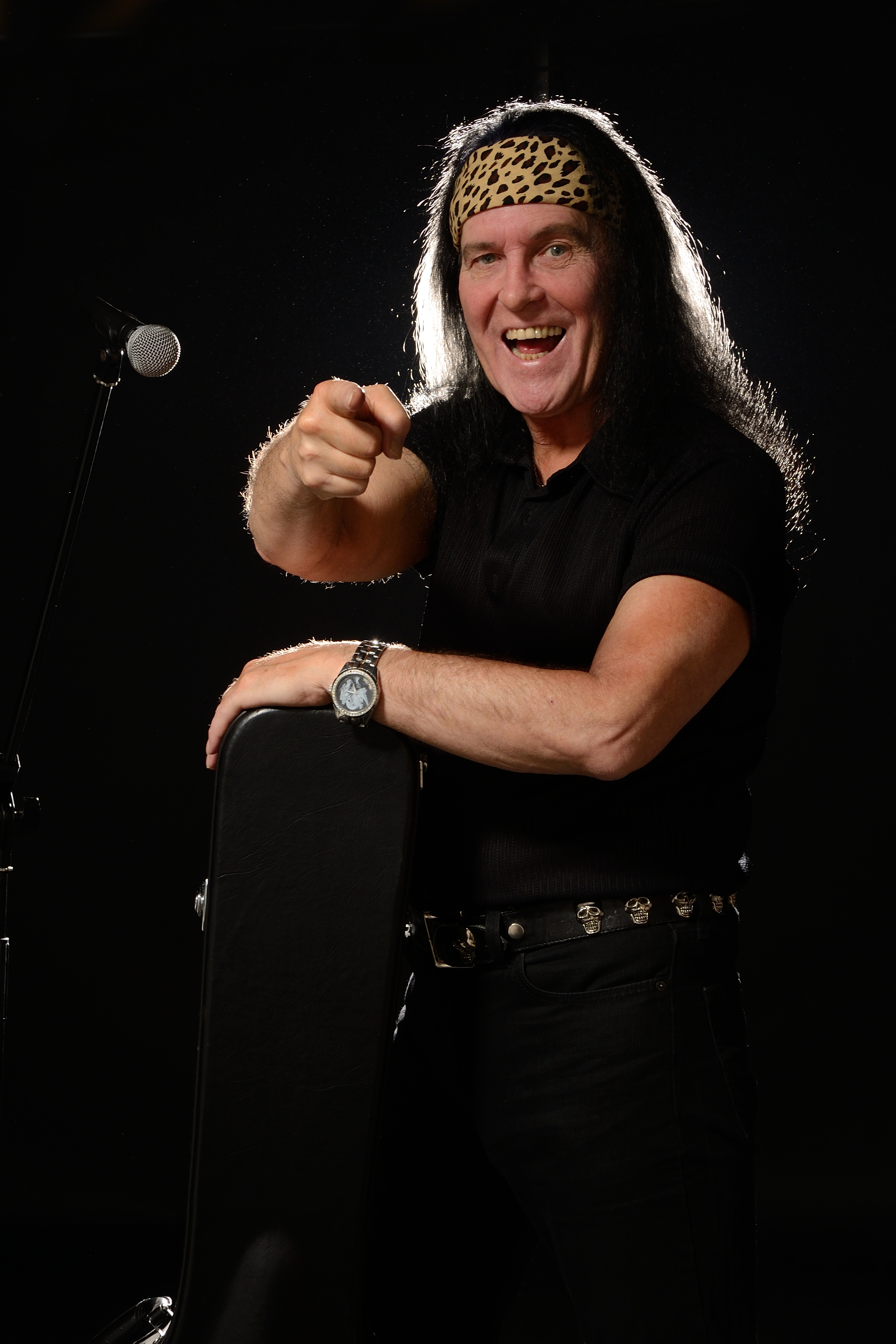 Dave Evans - the very first singer of AC/DC.